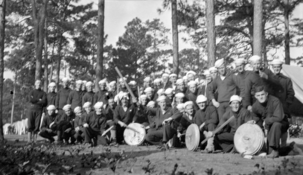 Group portrait of men in sailor caps with some holding sticks and garbage can lids.